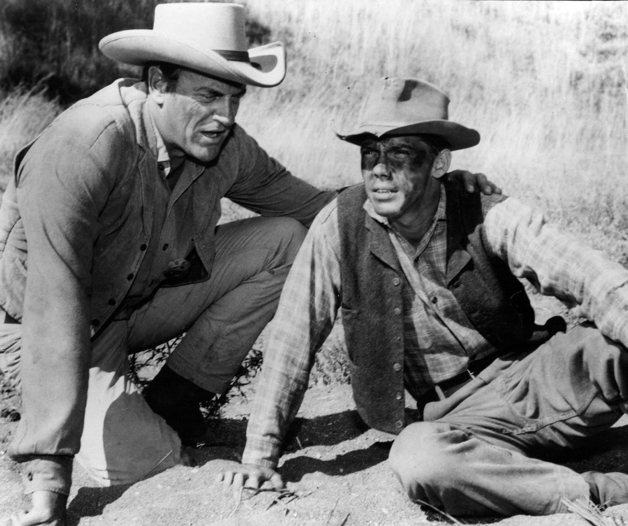 Photo of James Arness as Matt Dillon Gunsmoke.